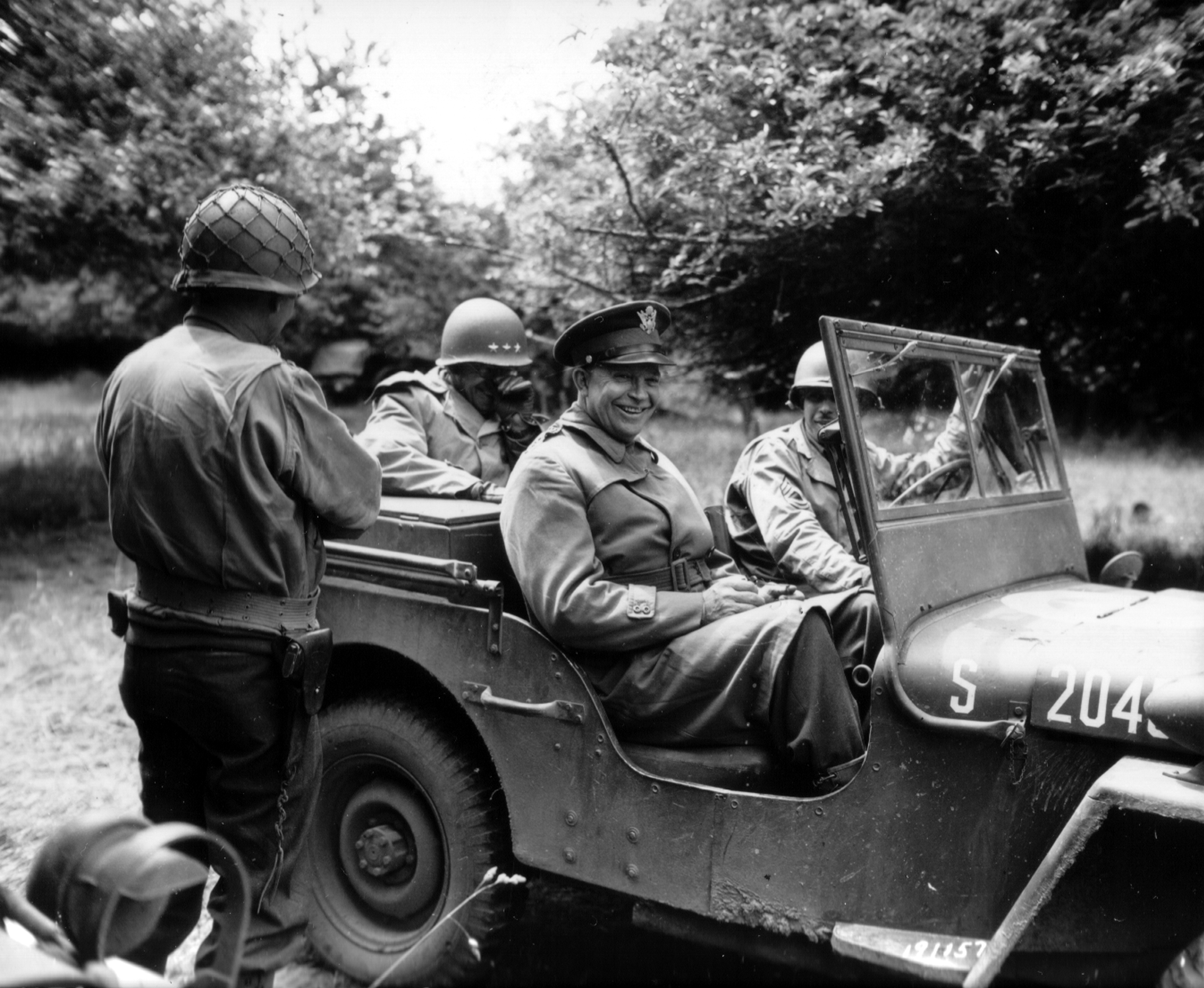 Generals Dwight D. Eisenhower in his jeep in the American sector during the liberation of Lower Normandy in the summer of 1944. The lieutenant general in the backseat looks like Omar Bradley. ID: p013329